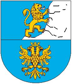 Coat of arms of the Voivodships Lwowskie 1918-1939, Poland